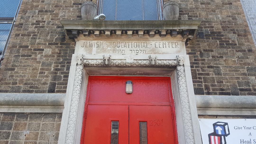 Entrance to the former Jewish Educational Center + Stiffel Senior Center at 604 W Porter St, Philadelphia, Pennsylvania on September 1, 2019.